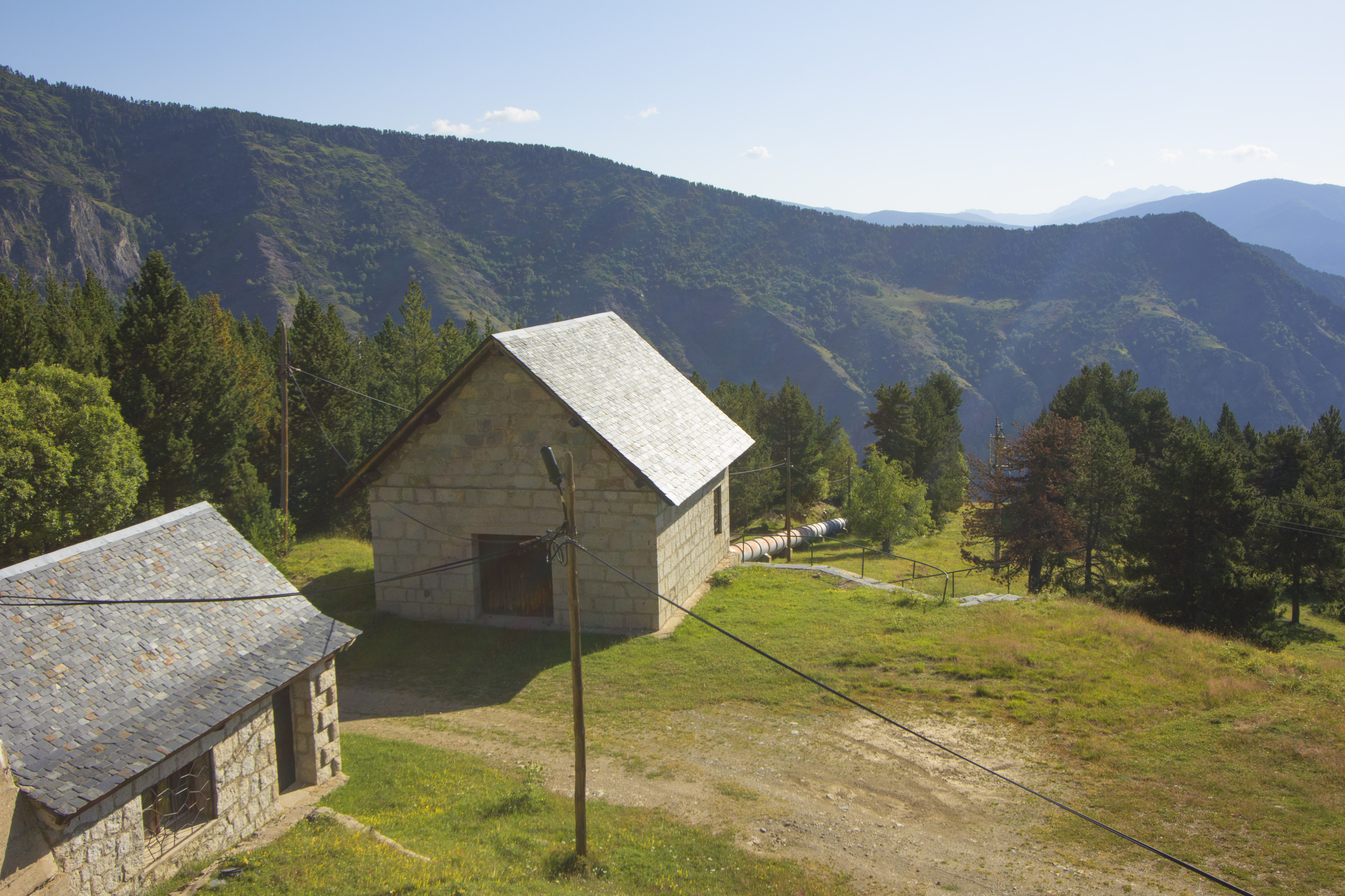 Penstock regulation of Sant Maurici hydroelectric power plant, Espot (Catalan Pyrenees)